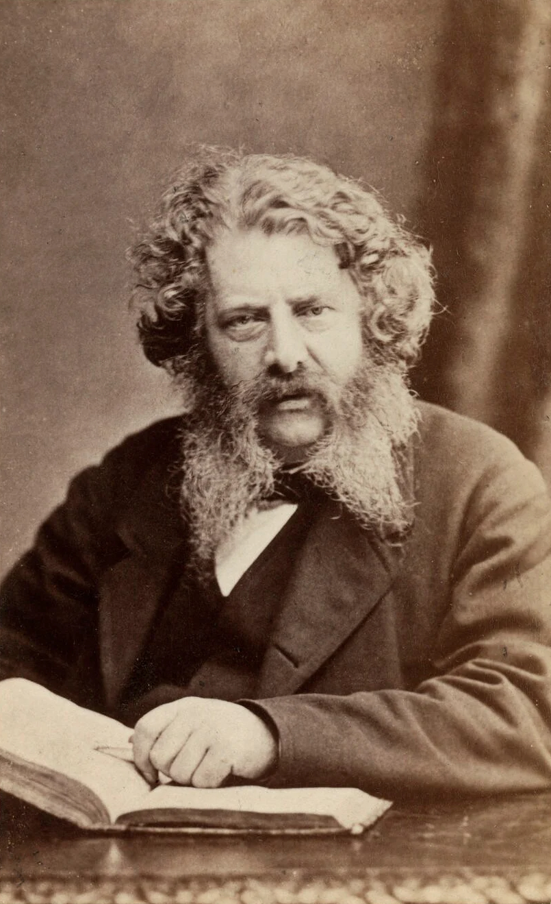 William John Macquorn Rankine